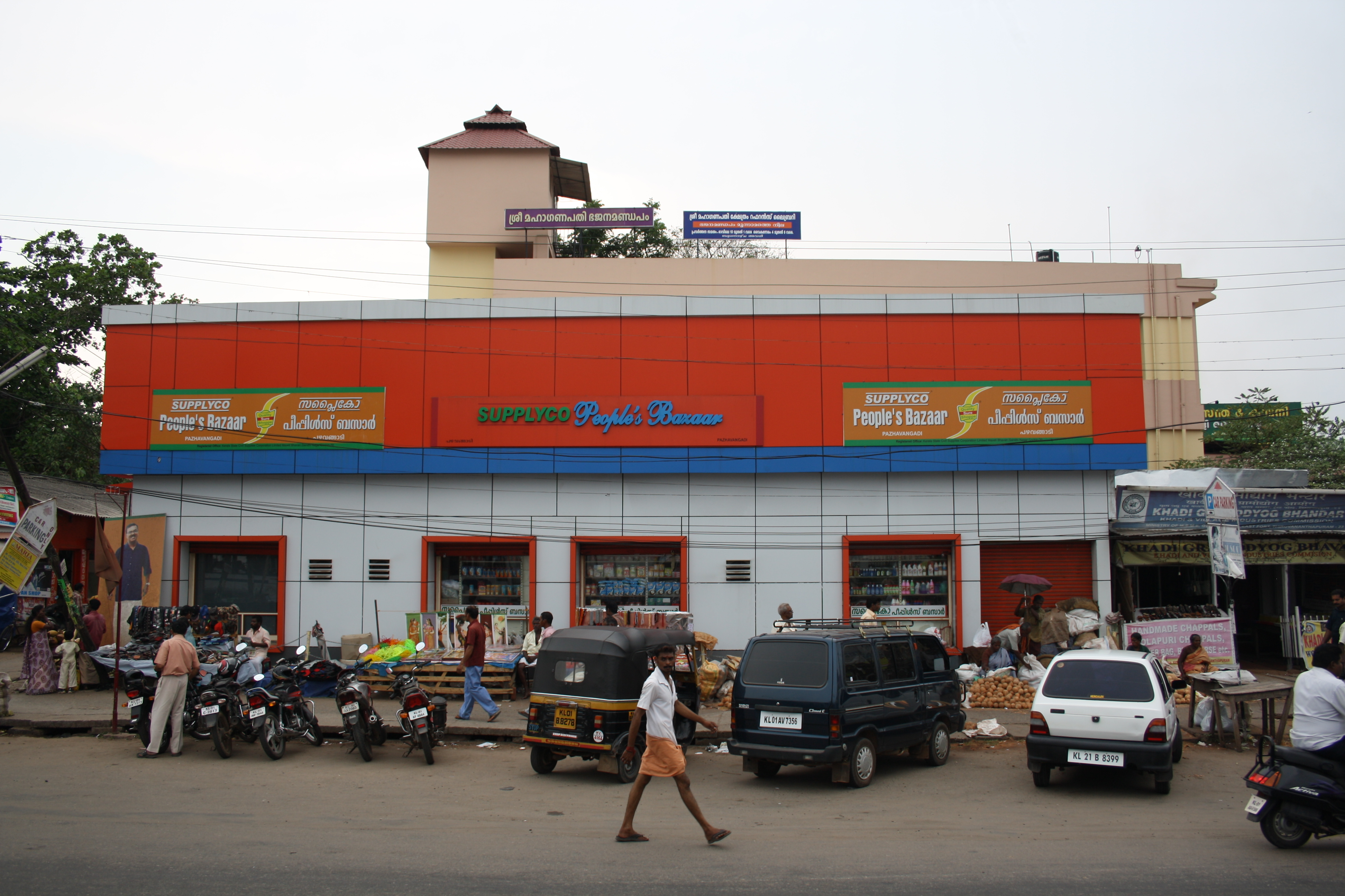 Supplyco Peple's bazar, Pazhavangadi, Thiruvananthapuram.